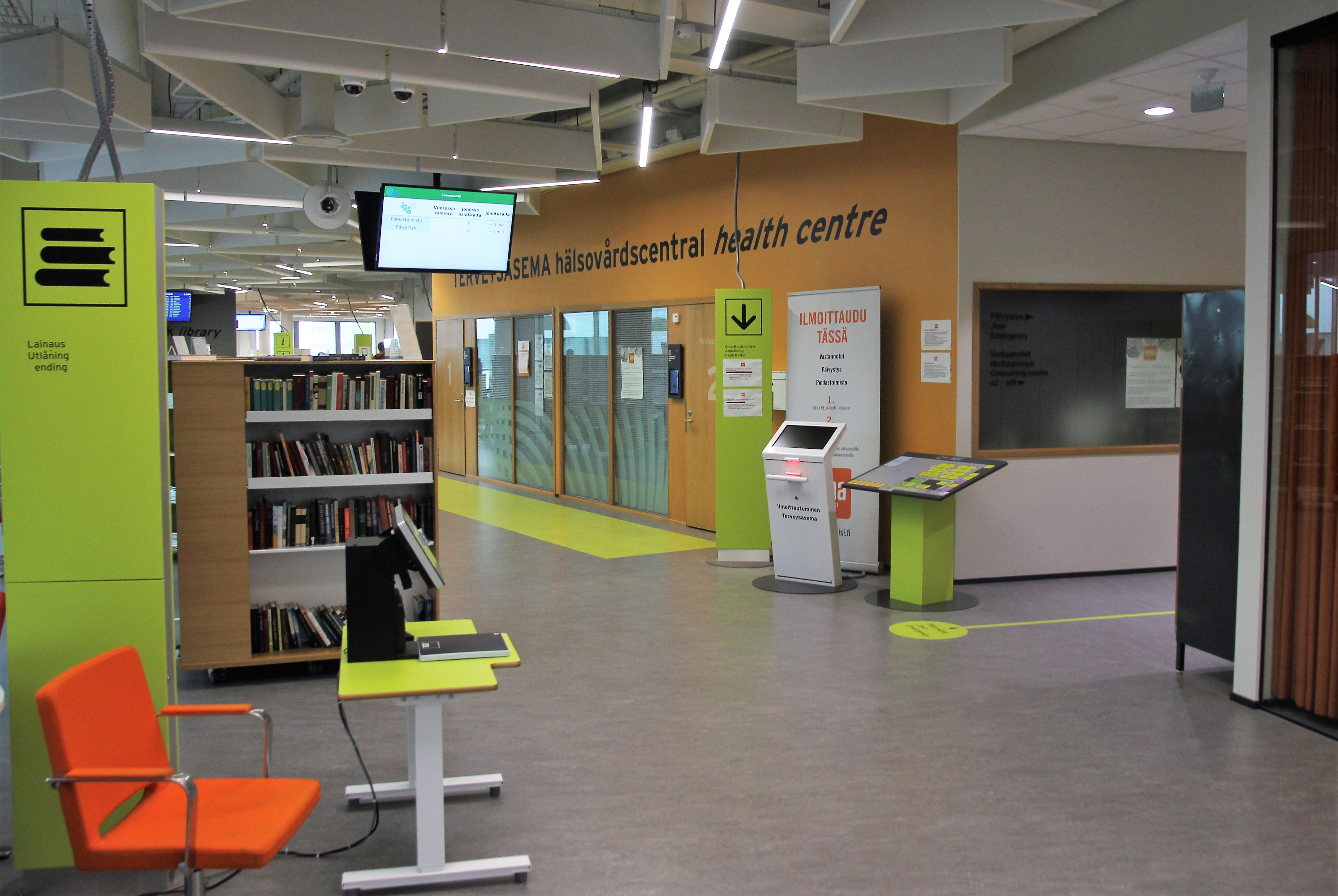 Lobby of the health station, located in the 3rd floor of Iso Omena shopping centre. In 2018 this health station services were still produced by Mehiläinen under brand Oma Lääkärisi Iso Omena. Book shelfs of Espoo city library on the left. From January 2019 Espoo city plans to start a new Suur-Matinkylän (Greater Matinkylä) health station here. Address of Ison Omena shopping centre: Suomenlahdentie 1, Espoo.